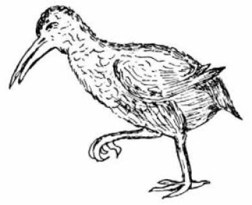 Red Rail.